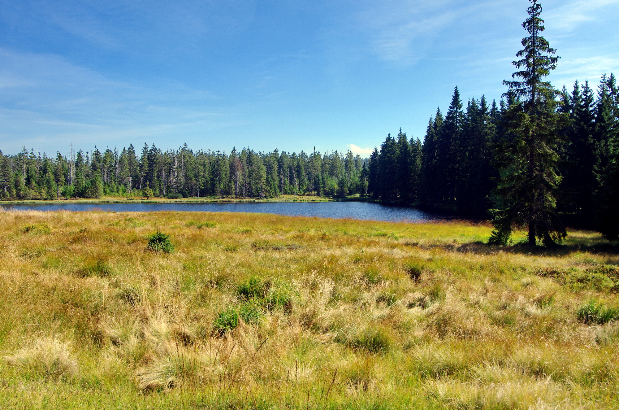 National natural monument Božídarské rašeliniště, Ore Mountains near a small town Boží Dar in Karlovy Vary District, Czech Republic